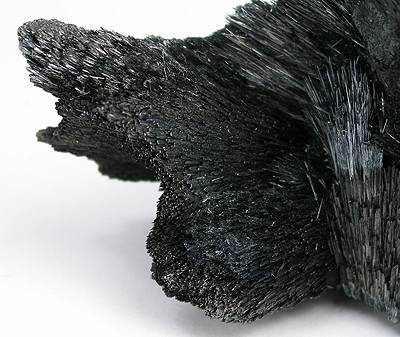 Berthierite Locality: Herja Mine (Kisbánya), Baia Mare (Nagybánya), Maramures County, Romania (Locality at ) Size: cabinet, 16.7 x 10.0 x 8.5 cm Berthierite A very large showy specimen of lustrous, metallic berthierite crystals, with huge bladed clusters to over 10 cm. This is a remarkable, large, and frankly quite attractive clustre for the species, which is a rare Iron Antimony Sulfide. I have seen many smaller ones over the years, but only a few of this stature. This is from an old European collection, and is a significant specimen for this rare sulfide species (and the largest I have seen for sale).